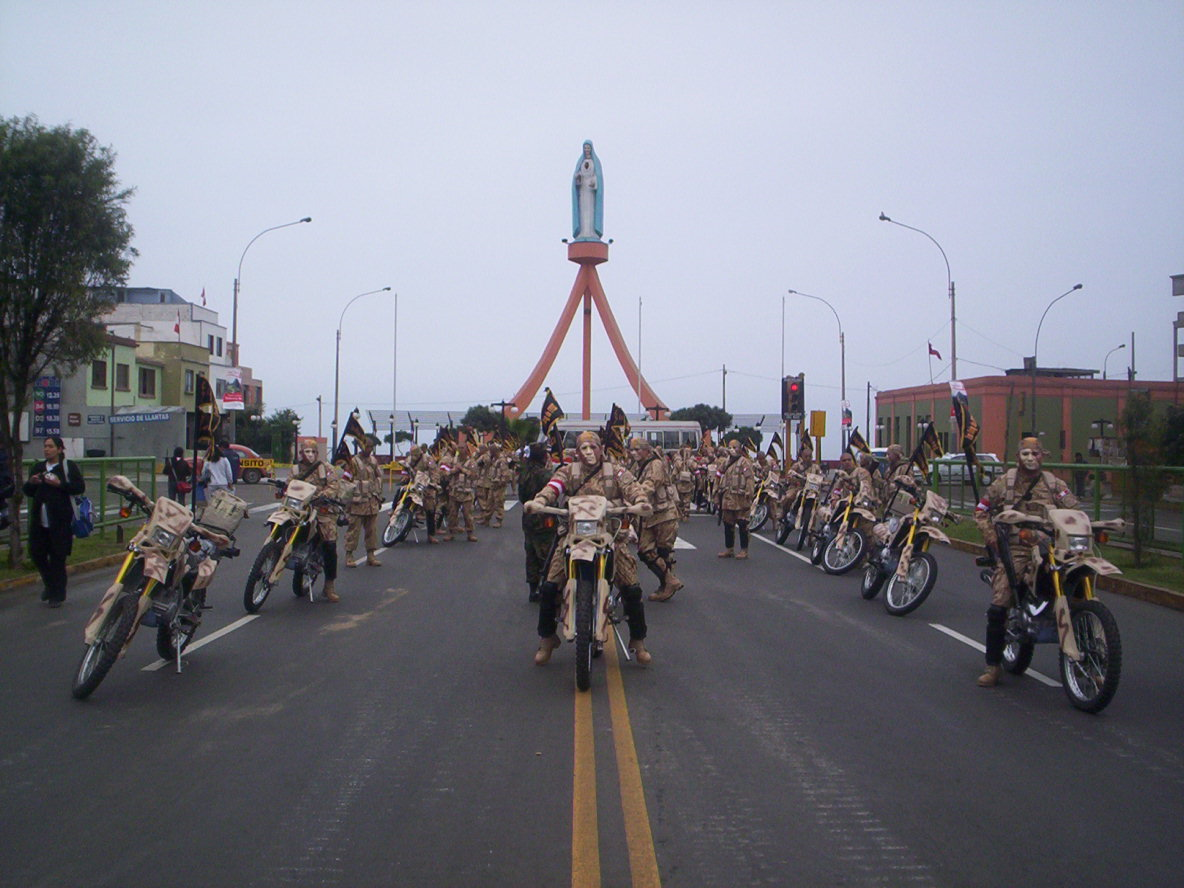 Día de la Independencia del Perú. Magdalena del Mar, Lima, Perú. Independece Day of Peru. Magdalena del Mar, Lima, Peru.